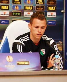 Ondrej Duda